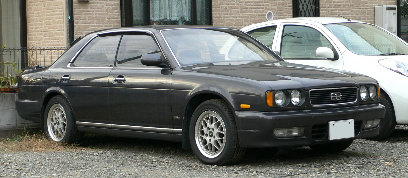 9th generation Nissan_Gloria (1991/6 - 1993/6)